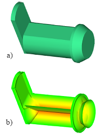 This figure shows: (a) A simple 3d object. (b) Its medial axis transform. The colours represent the distance from the medial axis to the object's boundary.